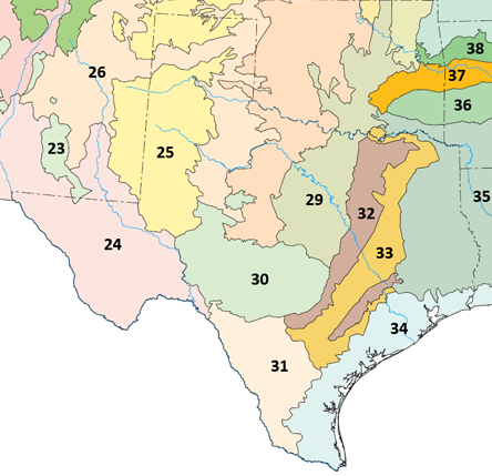 Level III ecoregions in Texas, as defined by the U.S. Environmental Protection Agency